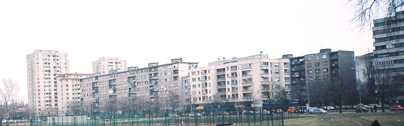 Image of Liman neighborhood in Novi Sad (self made)